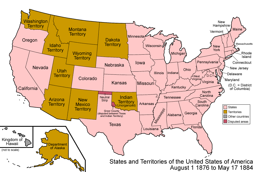 Map of the states and territories of the United States as it was from 1876 to 1884. On August 1 1876, Colorado Territory was admitted as the state of Colorado. On May 17 1884, the Department of Alaska was redesignated the District of Alaska.